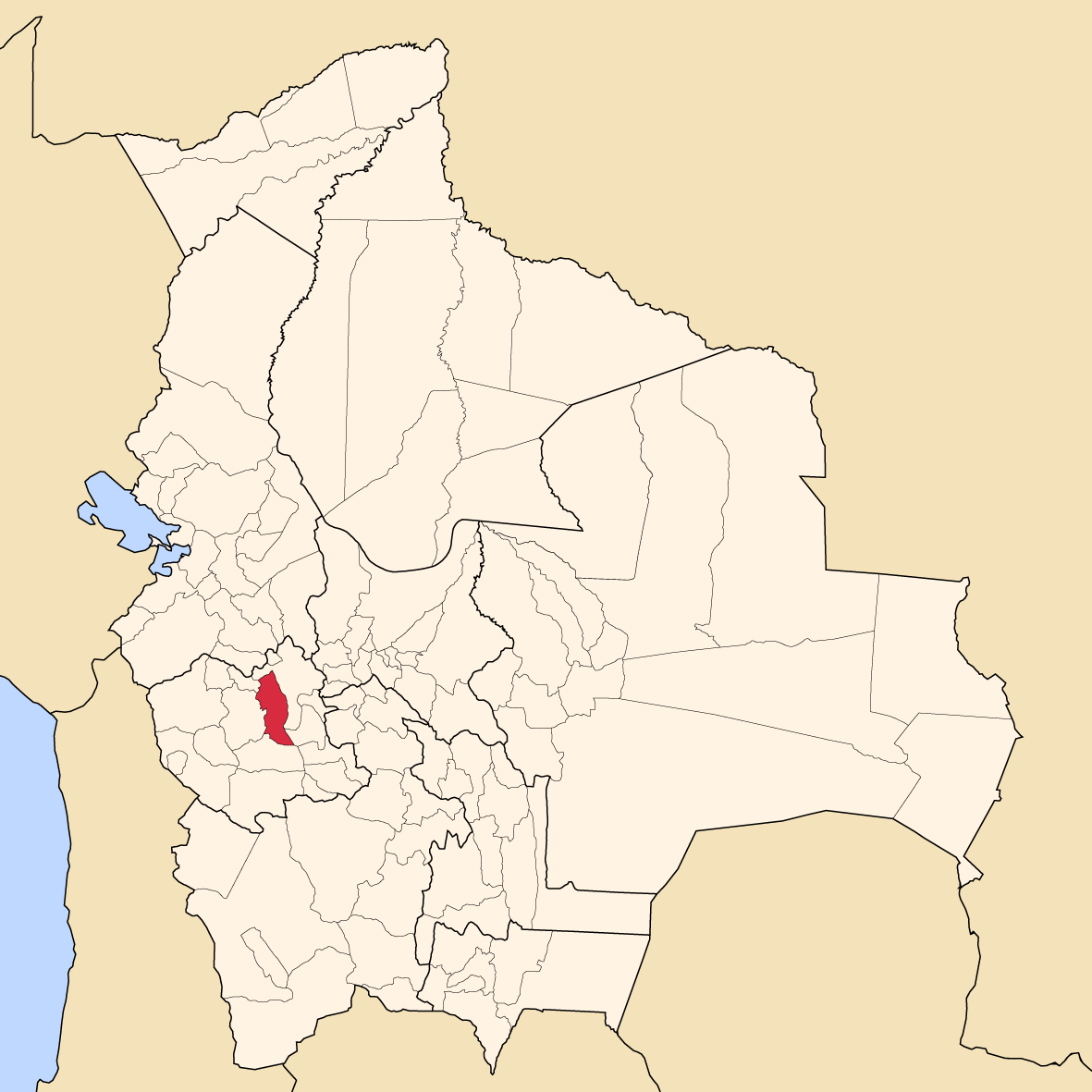 Map of Bolivia showing Saucarí province, Oruro